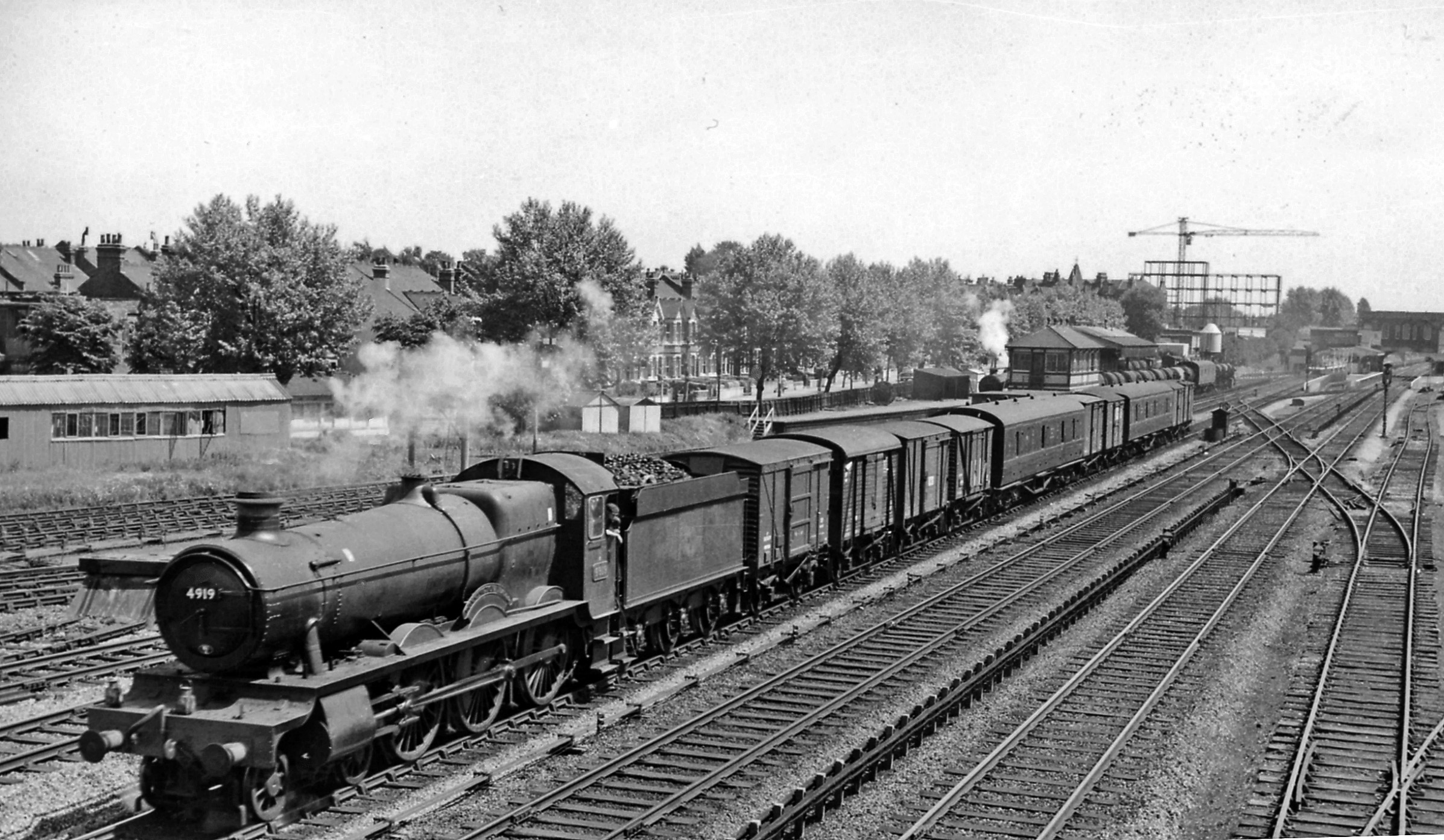 Down Parcels train at West Ealing Junction. View eastward, towards West Ealing station; ex-GWR Paddington - Reading and the West main line, the branch to Greenford turnig off on the left. 'Hall' 4-6-0 No. 4919 'Donnington Hall' (built 3/29, withdrawn 10/64) is heading the Parcels, while a 'Castle' can be seen beyond at the Milk platform.